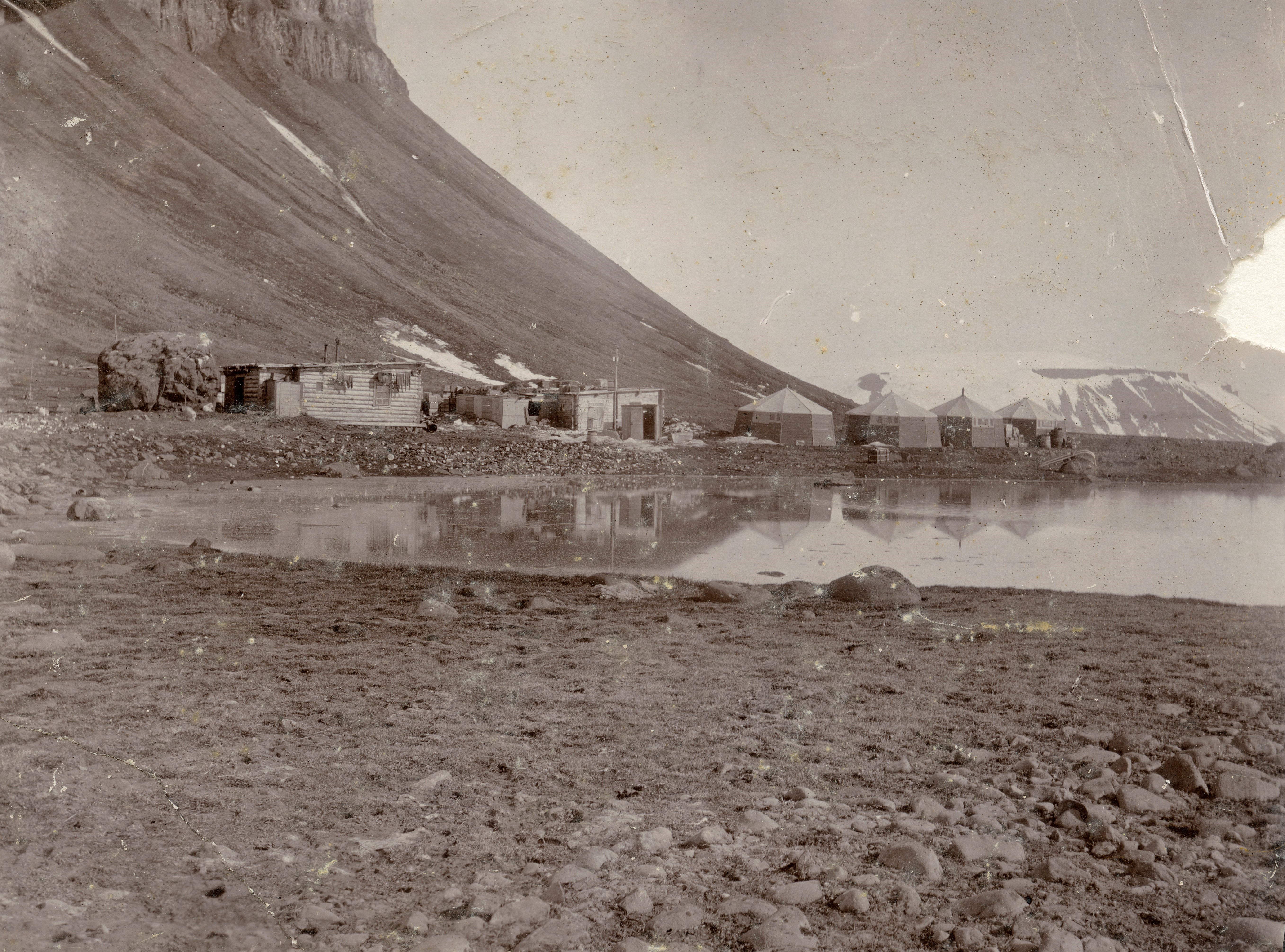 F. Jackson's meteorological station, which he had in Elmwood from 1894 to 1897. From the left a Russian log cabin, a stable for horses and four round tents for the equipment. One of the pictures from the expedition with arctic ship toward the North Pole in the period June 24, 1893 to August 13, 1896. According to the plan, the ship was to drift in the ice with the ocean current from the coast of Siberia across the North Pole to Greenland. In March 1895, Fridtjof Nansen, together with a companion, set out with dogsledges on a hazardous expedition on skis, in an attempt to reach the pole itself.